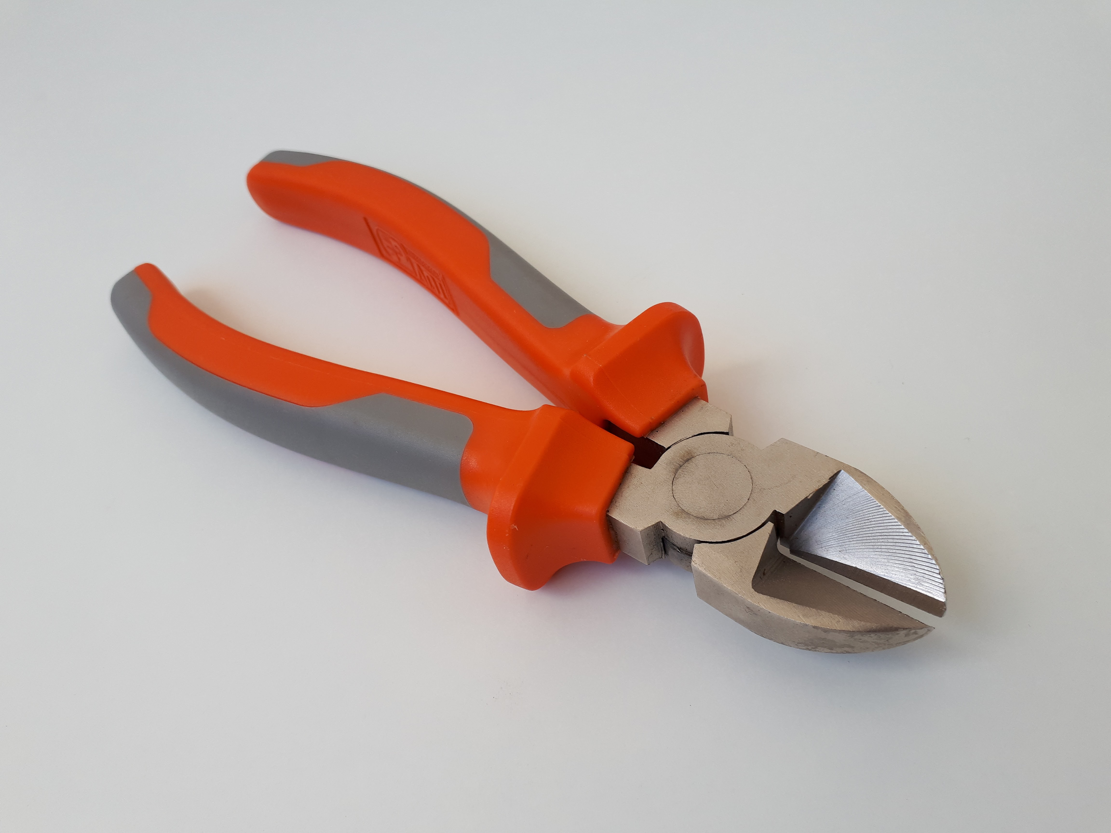 Diagonal pliers - 19 x 6 cm